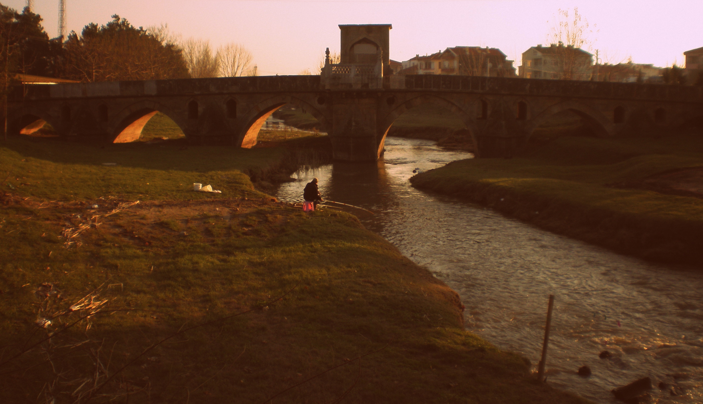 Babaeski Bridge